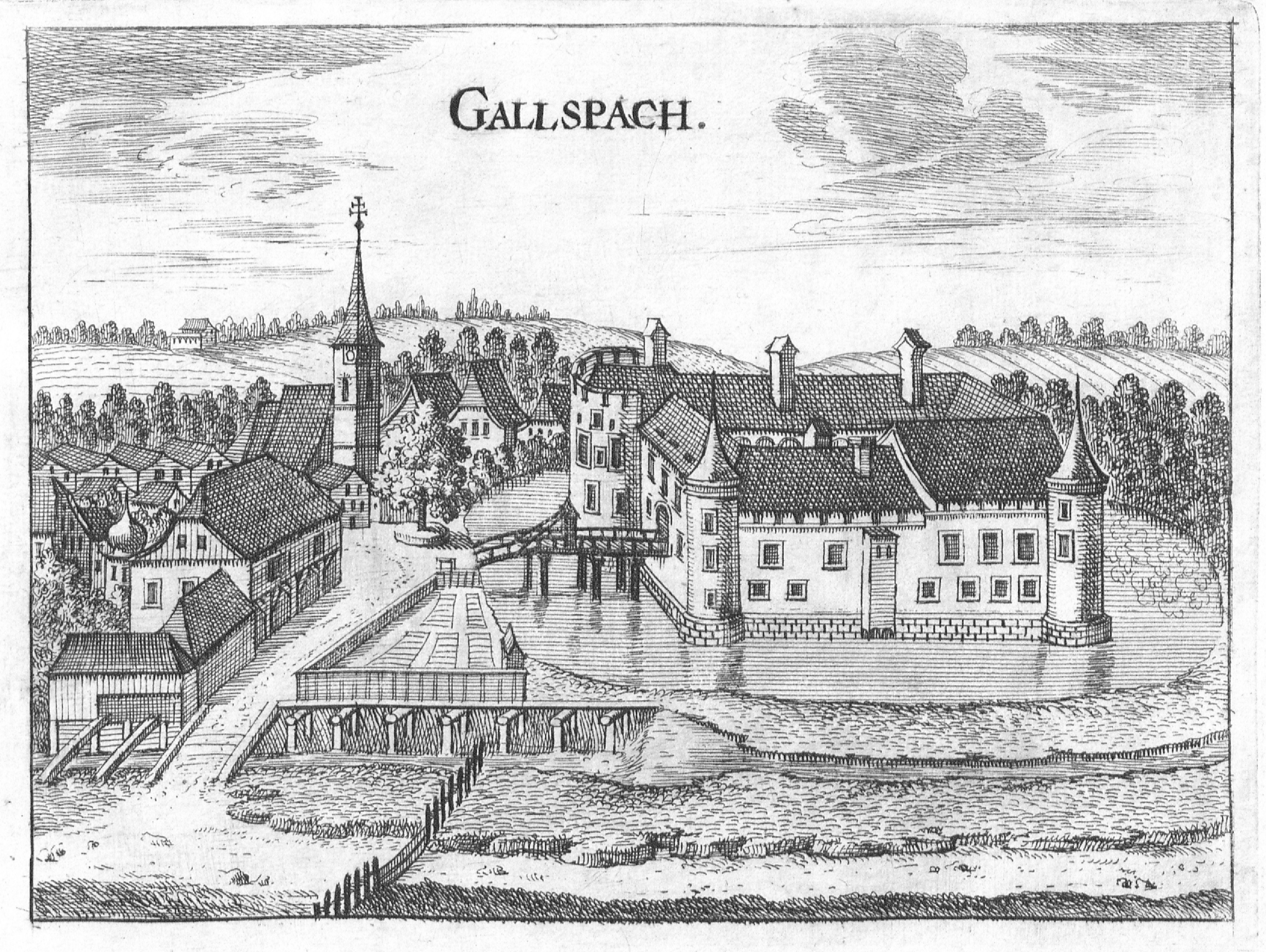 Engraving, view of Gallspach castle, Upper Austria